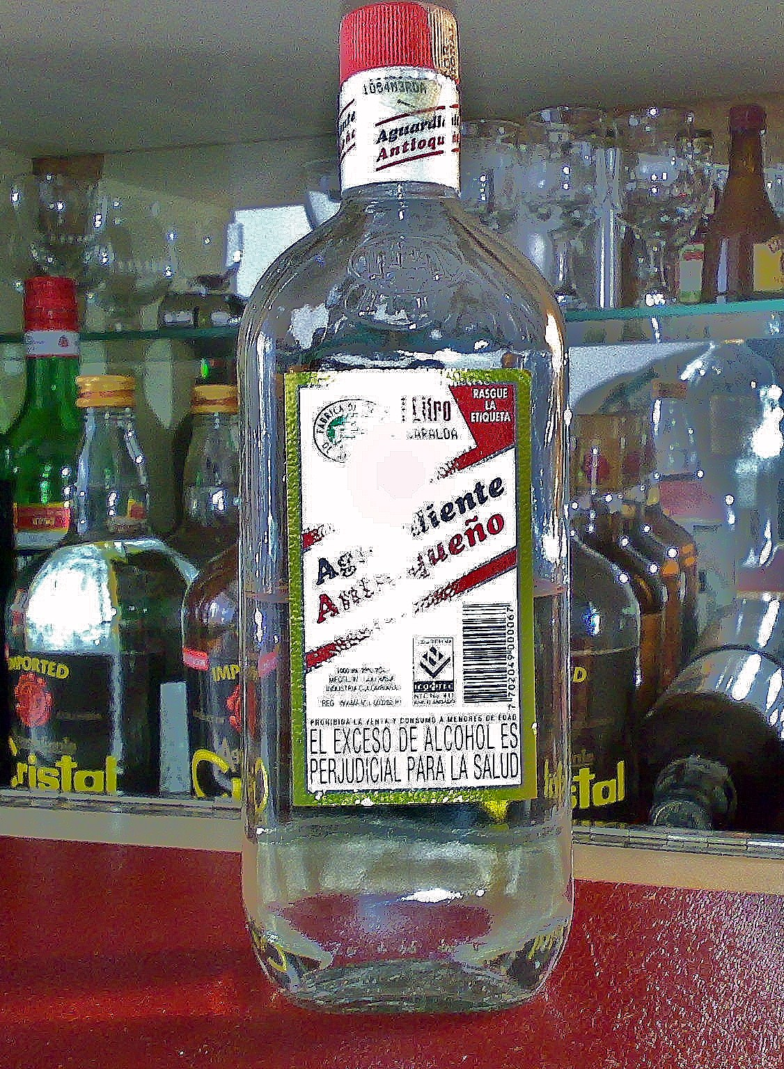 A bottle of Aguardiente Antioqueño